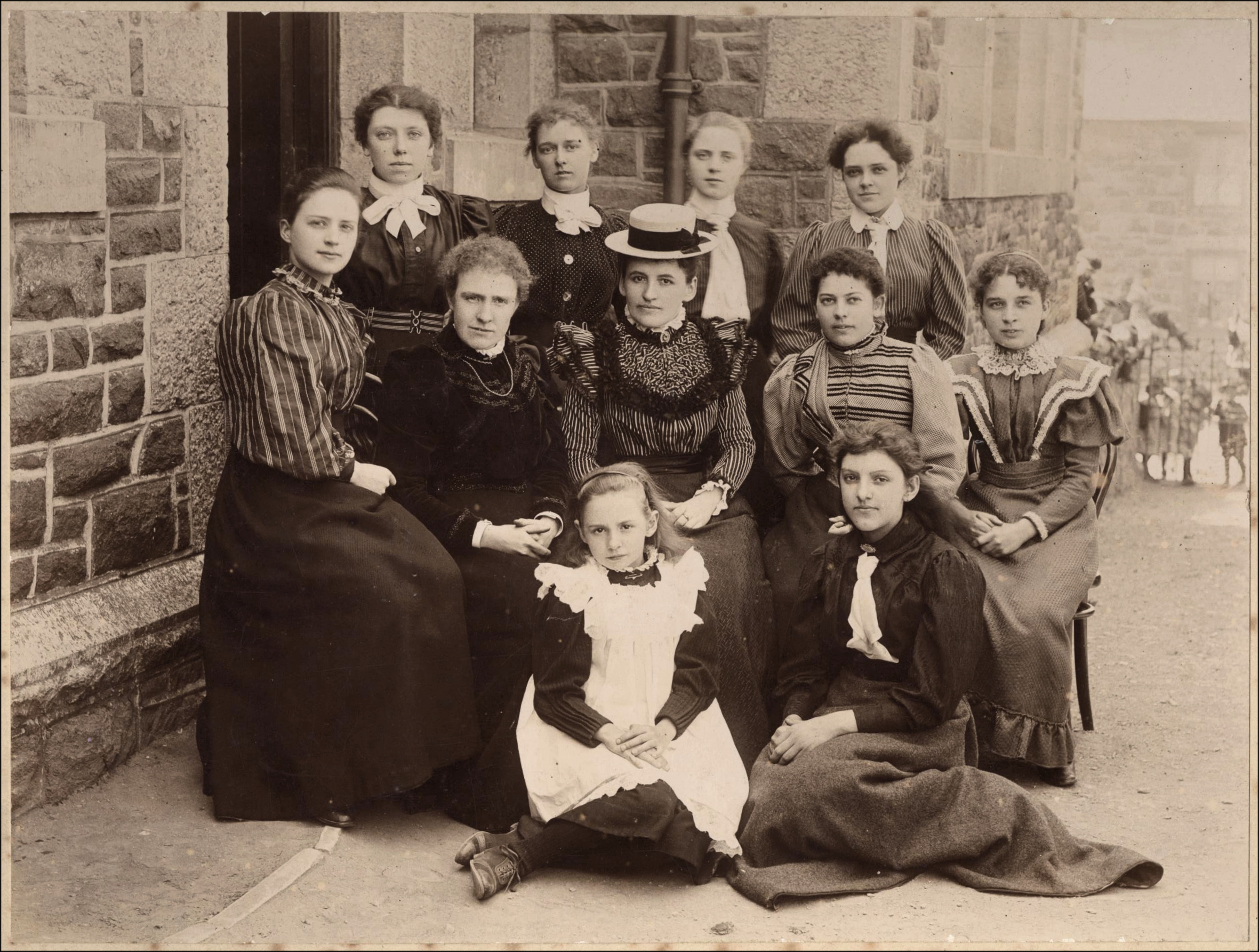 Angharad, mother of Waldo Williams (left) with family.